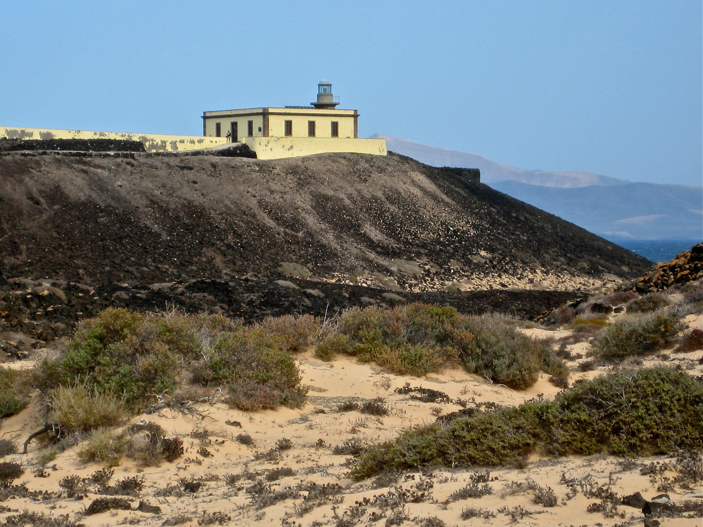 Lanzarote can be seen in the background